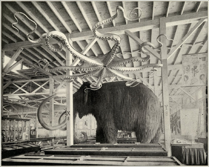 Mammoth and Devil Fish [or Giant Octopus]. Dept. of Ethnology Interior of Anthropology Building. From Columbian Gallery: A Portfolio of Photographs of the World's Fair by The Werner Company. 1893. [Replica of a Siberian Mammoth based on measurements taken from a mamoth that was found frozen in ice in 1799 near the mouth of the river Lena in northern Siberia, Russia, Anthropology Building.[1] Digitial Identifier: GN90799d_CG_110w World's Columbian Exposition Collection at The Field Museum